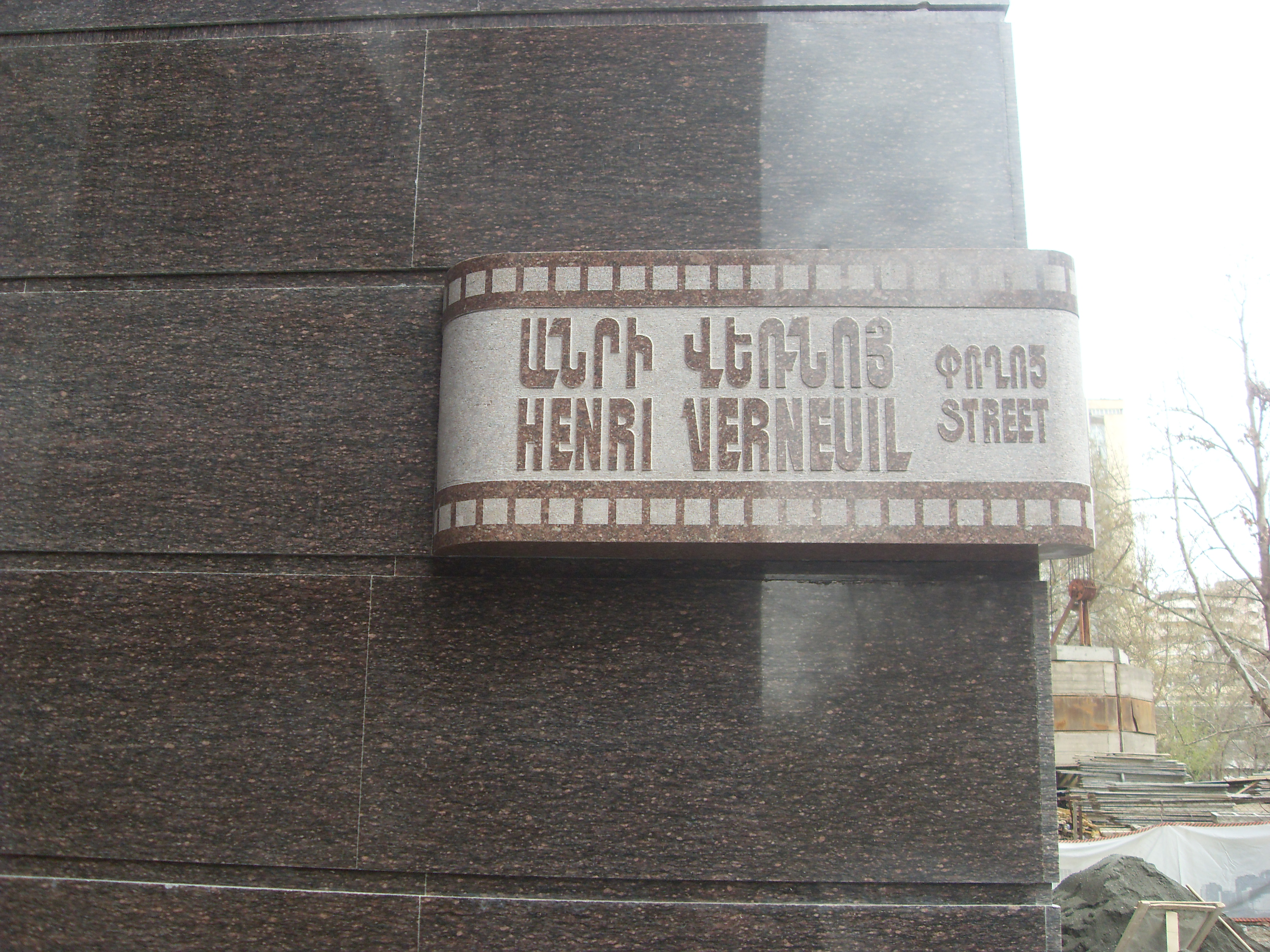 Henri Verneuil street, Yerevan